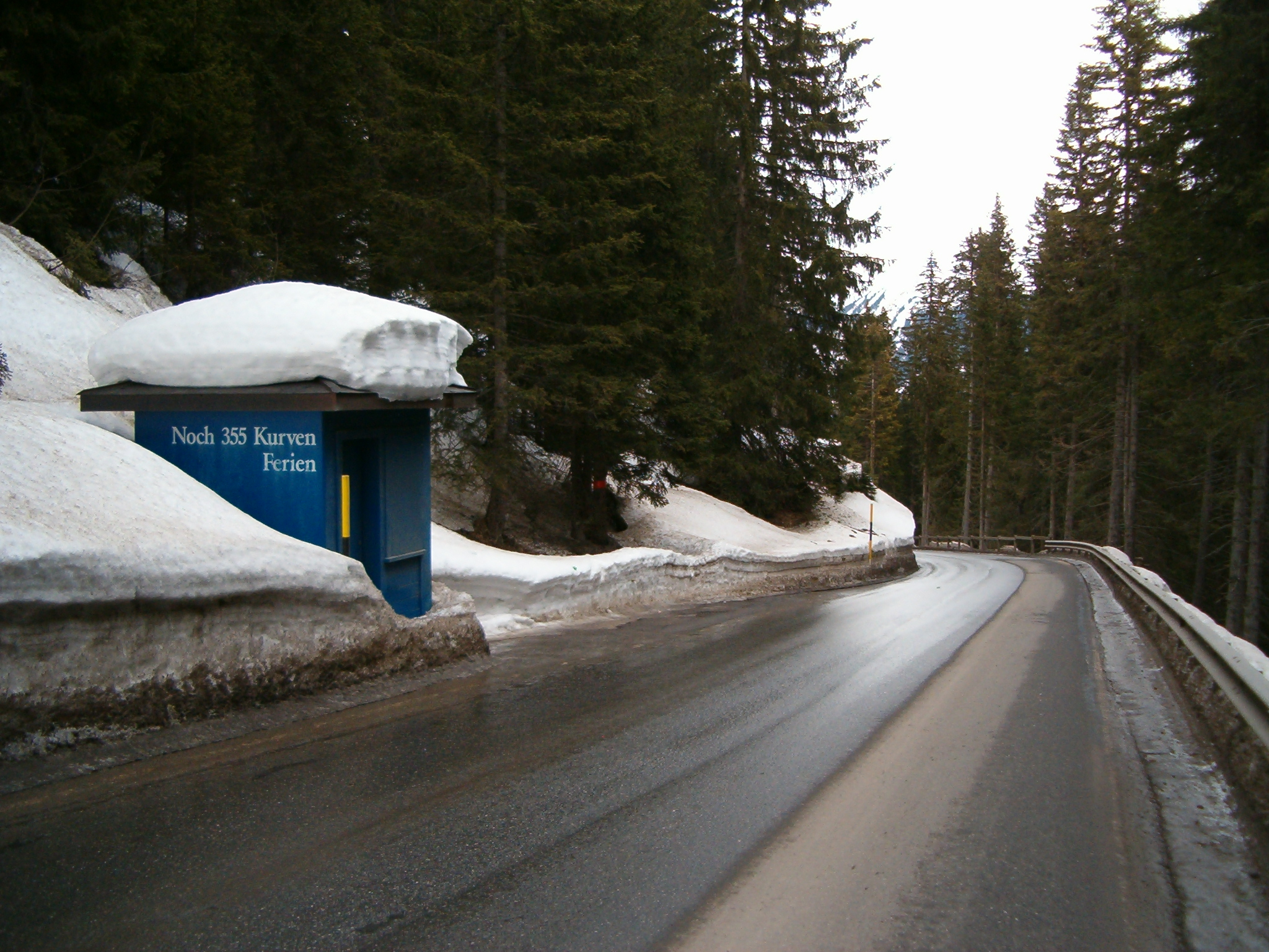 ancient starting location of bobsleigh and luge run Arosa, Switzerland